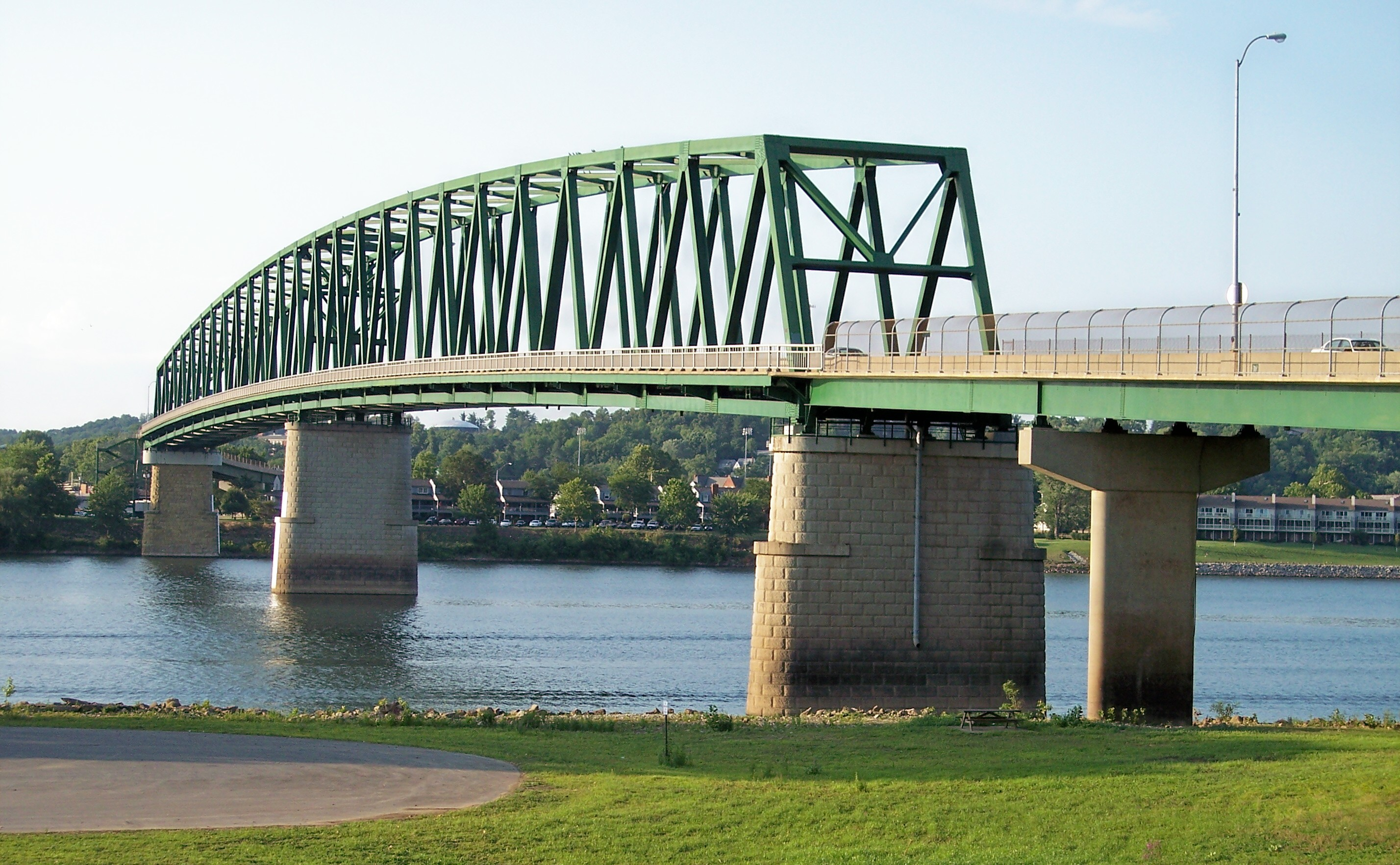 The Williamstown Bridge crossing the Ohio River, as viewed from Williamstown, West Virginia. Marietta, Ohio is on the opposite bank.